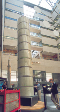 The Federal Reserve Bank of Philadelphia lobby featuring a 25-foot tower of shredded money.